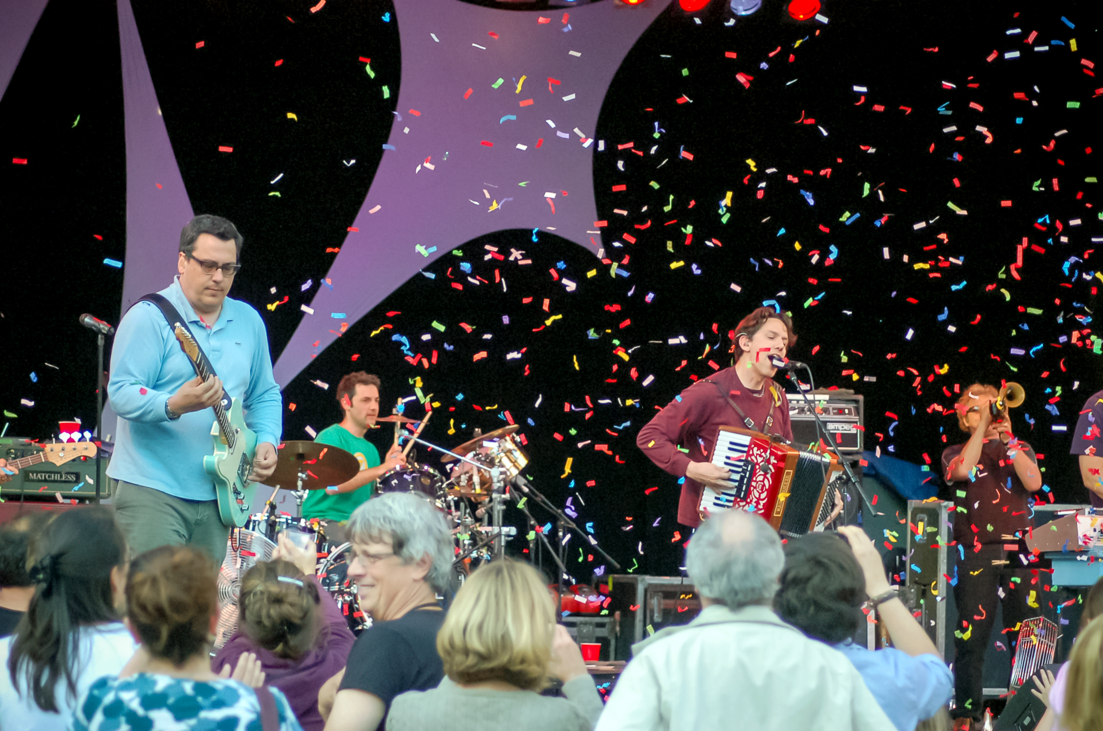 They Might Be Giants celebrate their 26th year of Showbiz by playing in New Haven.